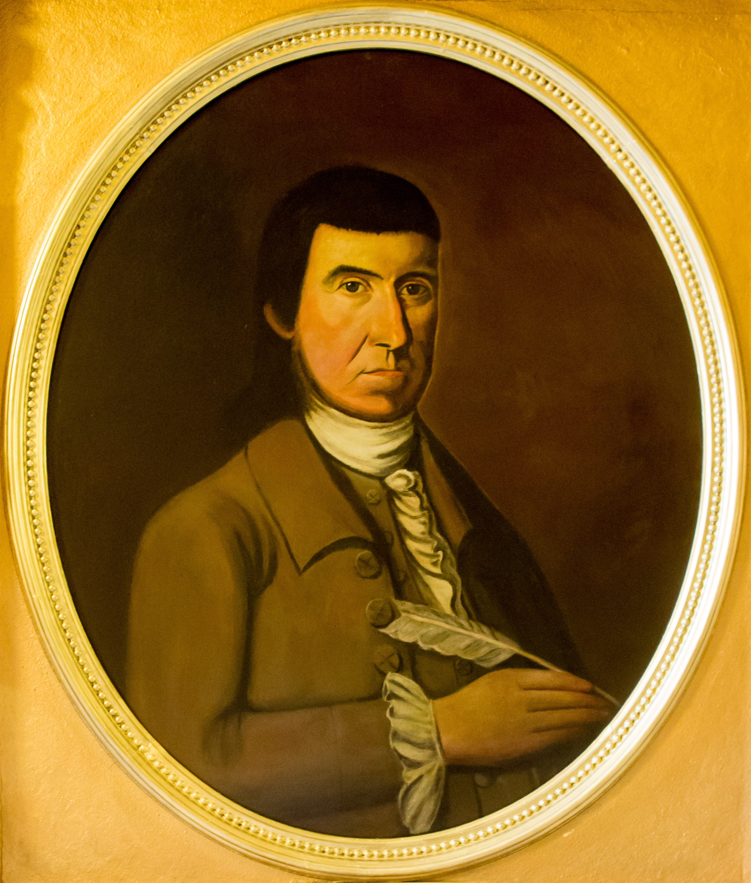 Nicholas Cooke (1717-1782)